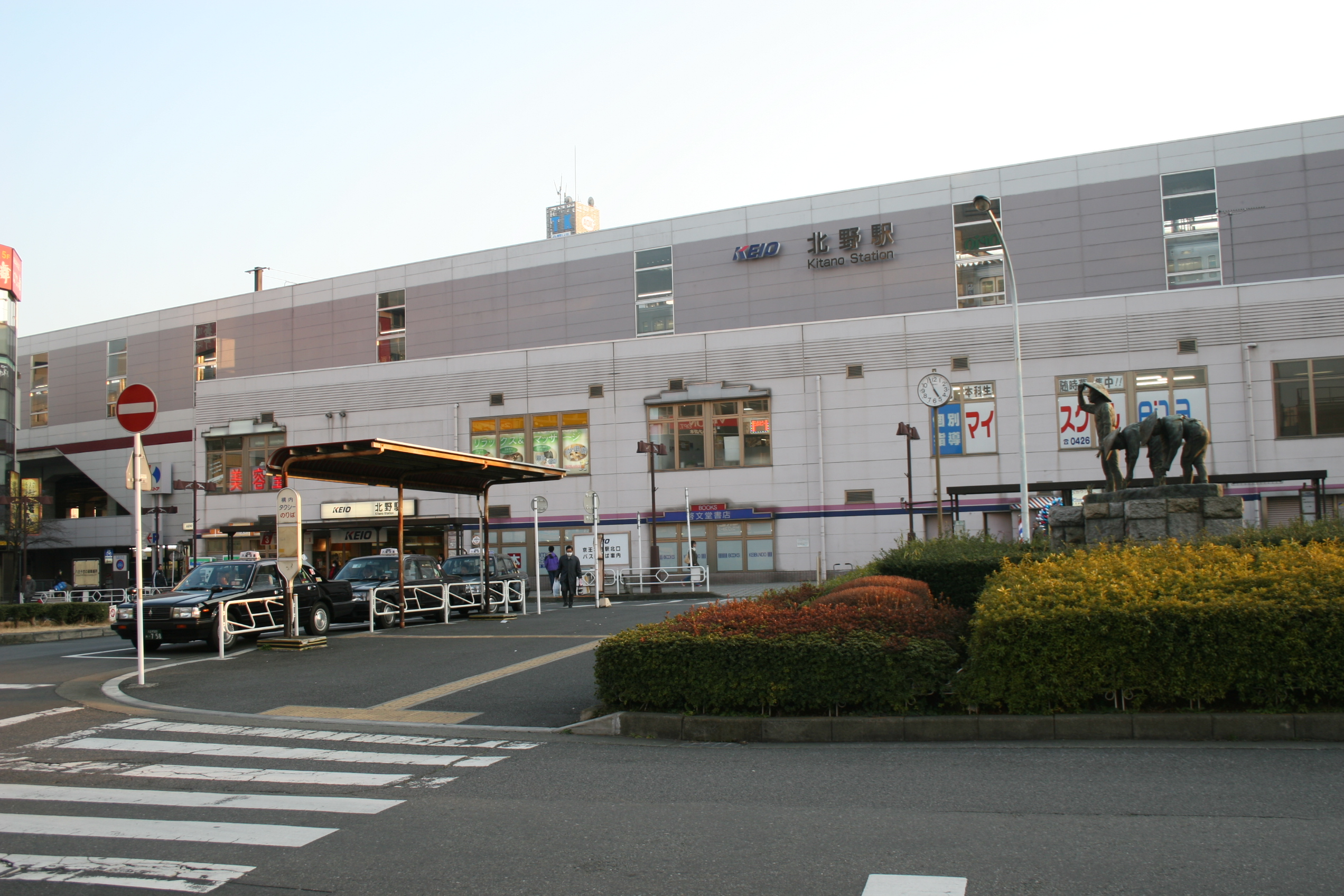 Kitano Station, a railway station on the Keio Line in Hachioji, Tokyo, Japan